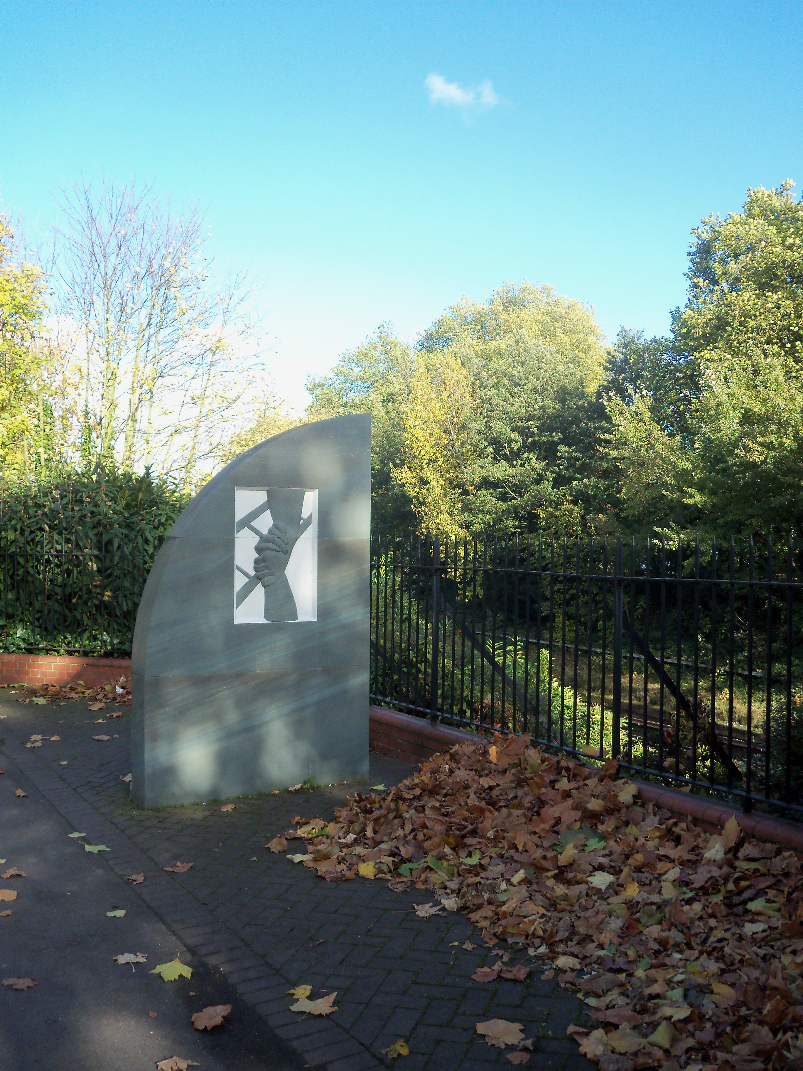 Memorial to the multiple train collision just outside Clapham Junction railway station in London that occurred on 12 December 1988 and killed 35 people.